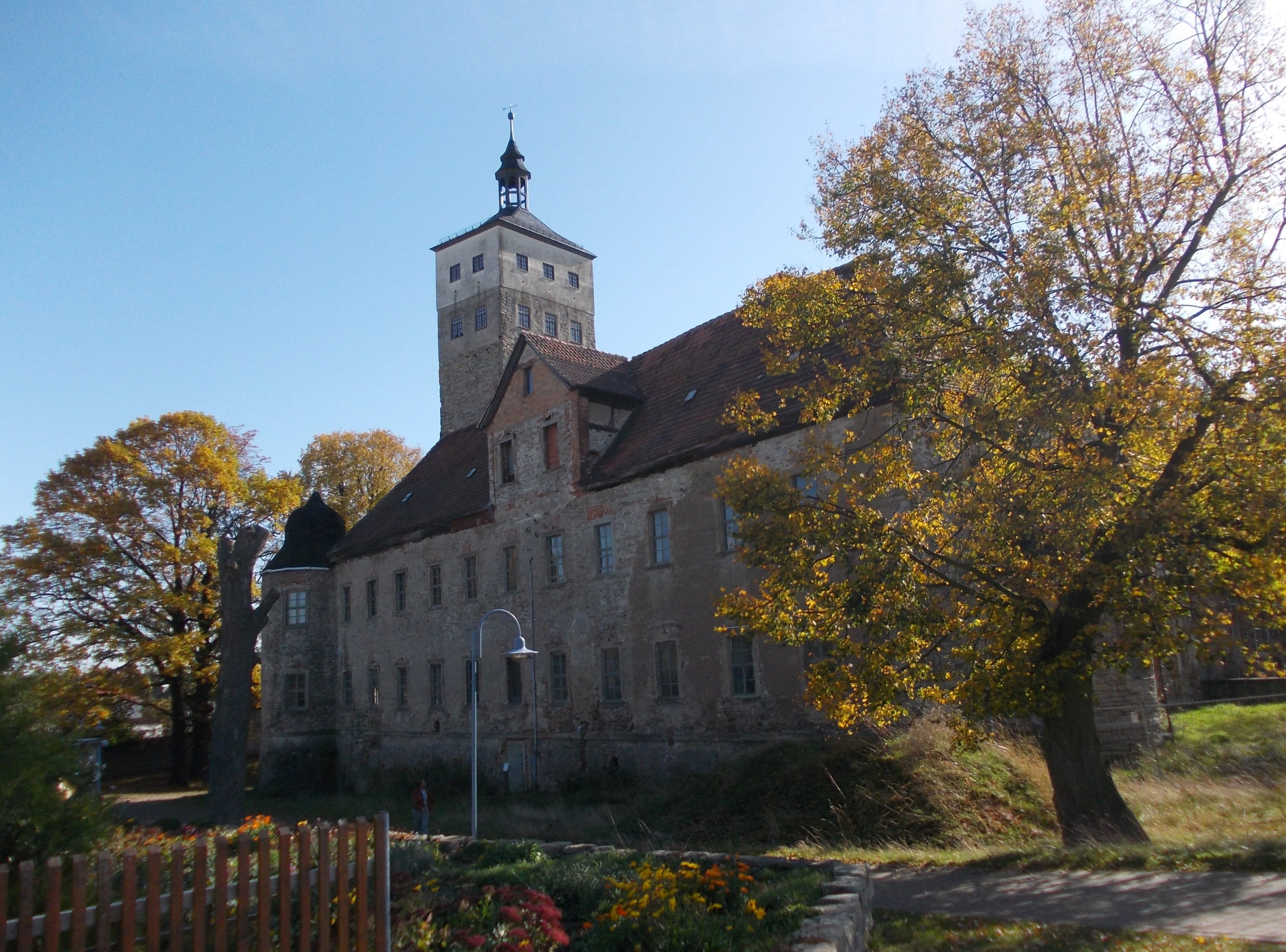 Heuckewalde Castle (Gutenborn, district of Burgenlandkreis, Saxony-Anhalt)